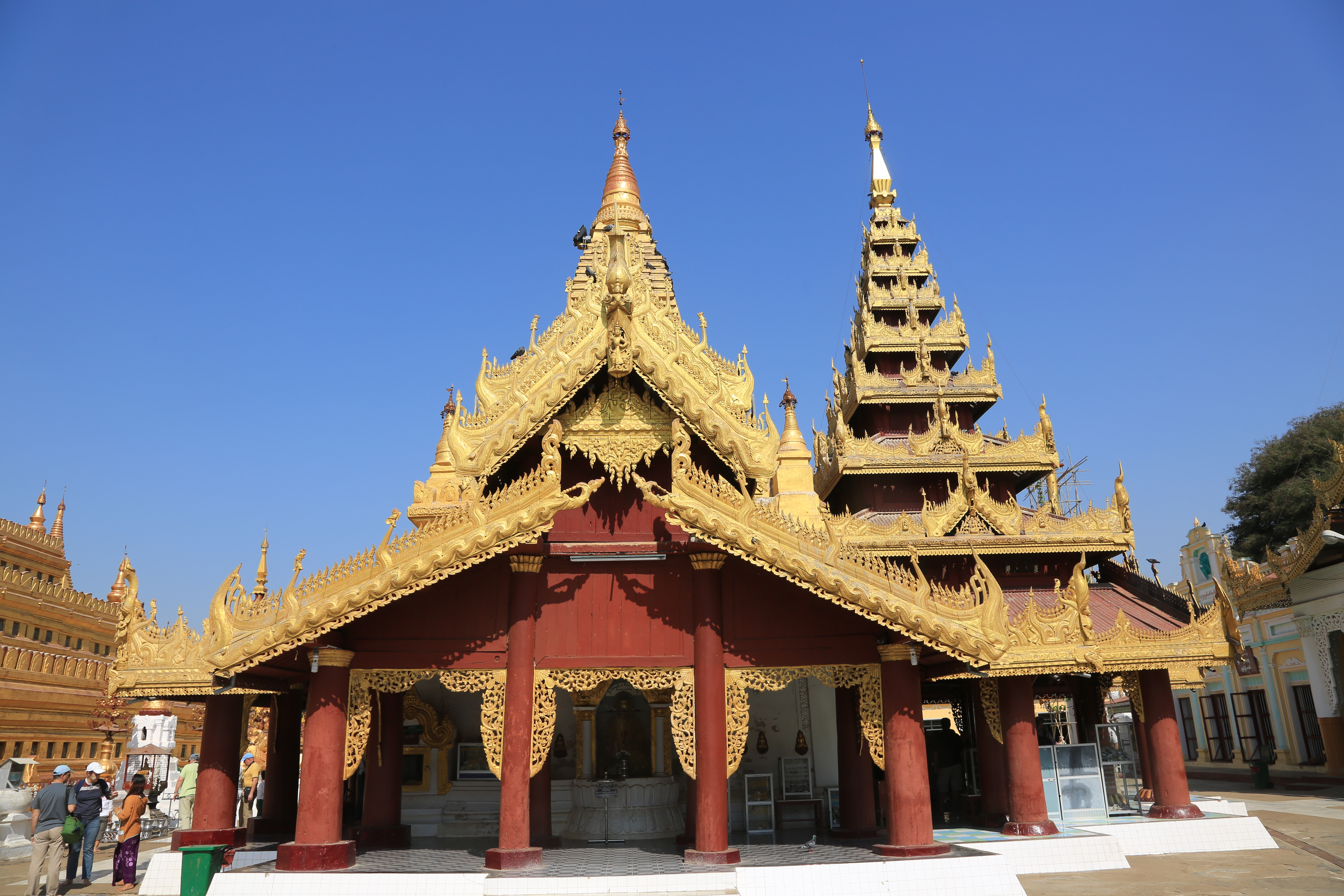 Shwezigon Temple in Bagan, Myanmar